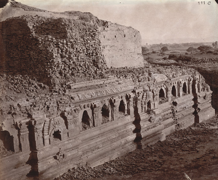 Photograph of the rear view of the ruins of the Baladitya Temple of ancient Nalanda in Bihar, India.